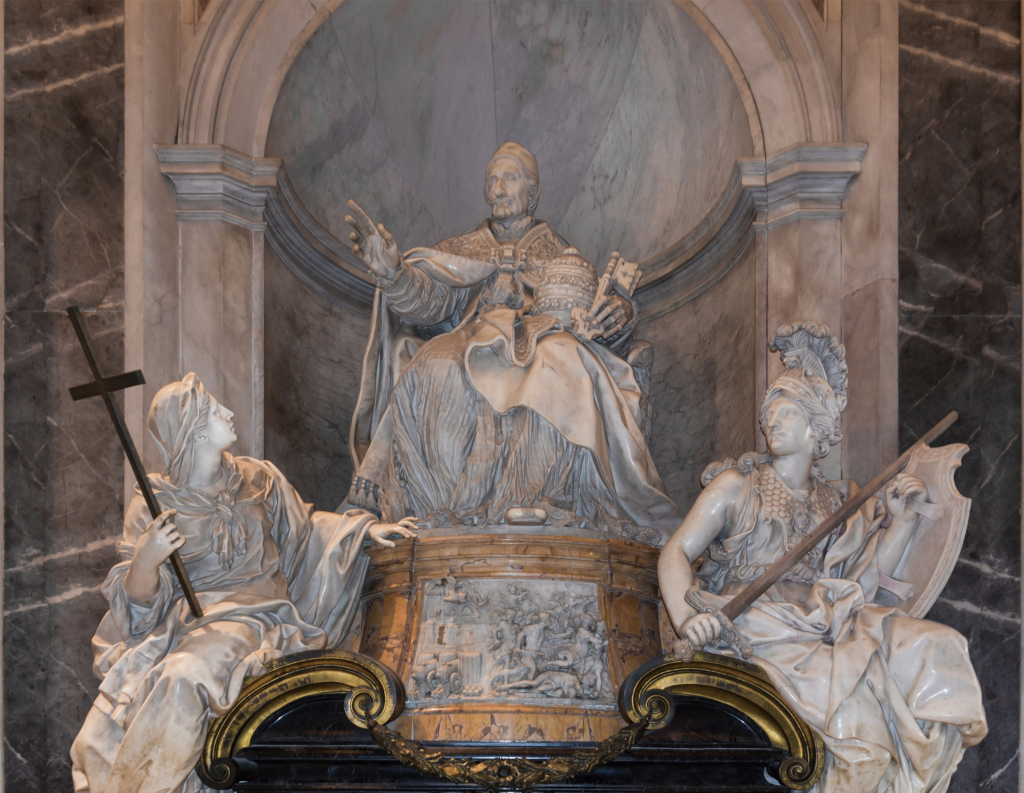 Monument to blessed pope Innocentius XI by Pierre-Etienne Monnot, detail, Saint Peter's Basilica, Vatican City.